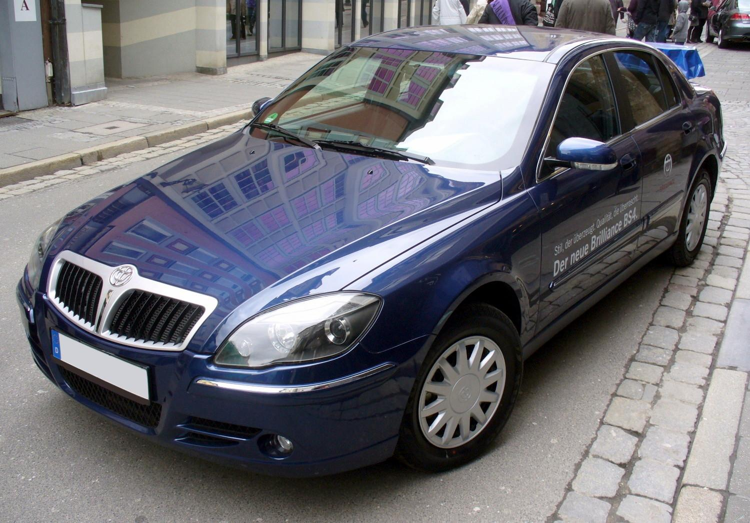 Brilliance BS4